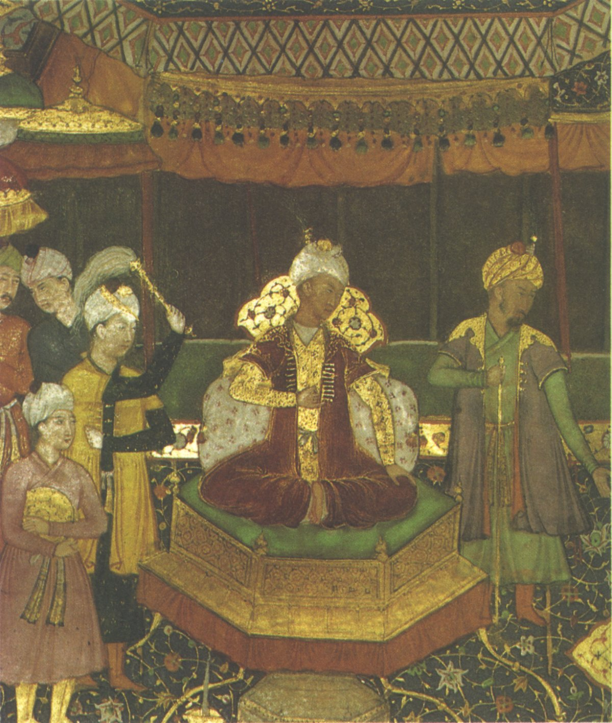 The "Memoirs of Babur" or Baburnama are the work of the great-great-great-grandson of Timur (Tamerlane), Zahiruddin Muhammad Babur (1483-1530). The Baburnama tells the tale of the prince's struggle first to assert and defend his claim to the throne of amarkand and the region of the Fergana Valley. After being driven out of Samarkand in 1501 by the Uzbek Shaibanids, he ultimately sought greener pastures, first in Kabul and then in northern India, where his descendants were the Moghul (Mughal) dynasty ruling in Delhi until 1858. The miniatures are from an illustrated copy of the Baburnama prepared for the author's grandson, the Mughal Emperor Akbar. It is worth remembering that the miniatures reflect the culture of the court at Delhi; hence, for example, the architecture of Central Asian cities resembles the architecture of Mughal India. Nonetheless, these illustrations are important as evidence of the tradition of exquisite miniature painting which developed at the court of Timur and his successors. Timurid miniatures are among the greatest artistic achievements of the Islamic world in the fifteenth and sixteenth centuries. Illustrations of Mughals from the Baburnama